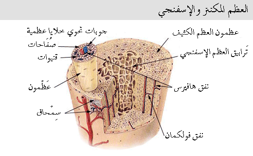 Compact bone & spongy bone